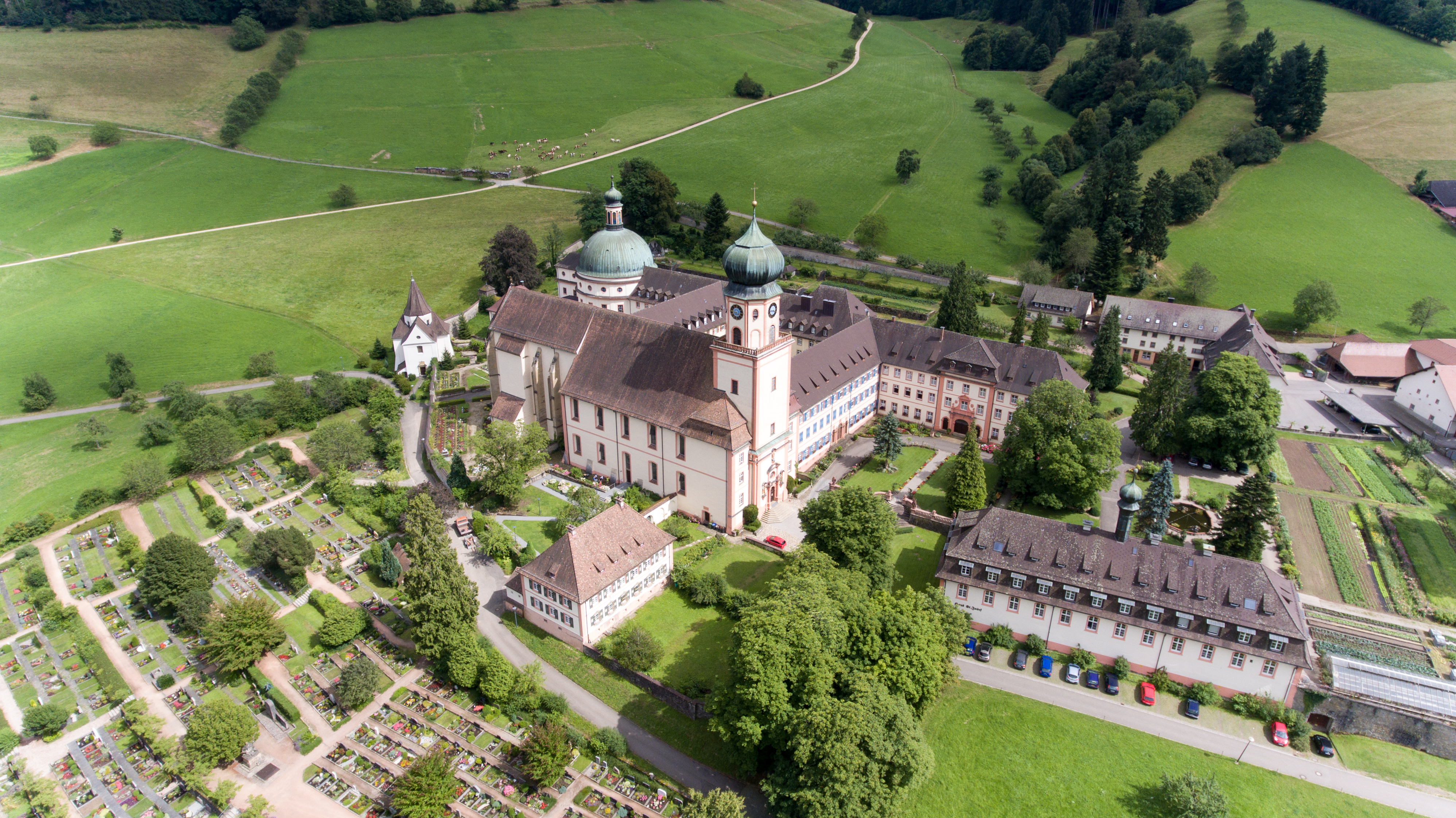 Aerial view of abbey St. Trudpert